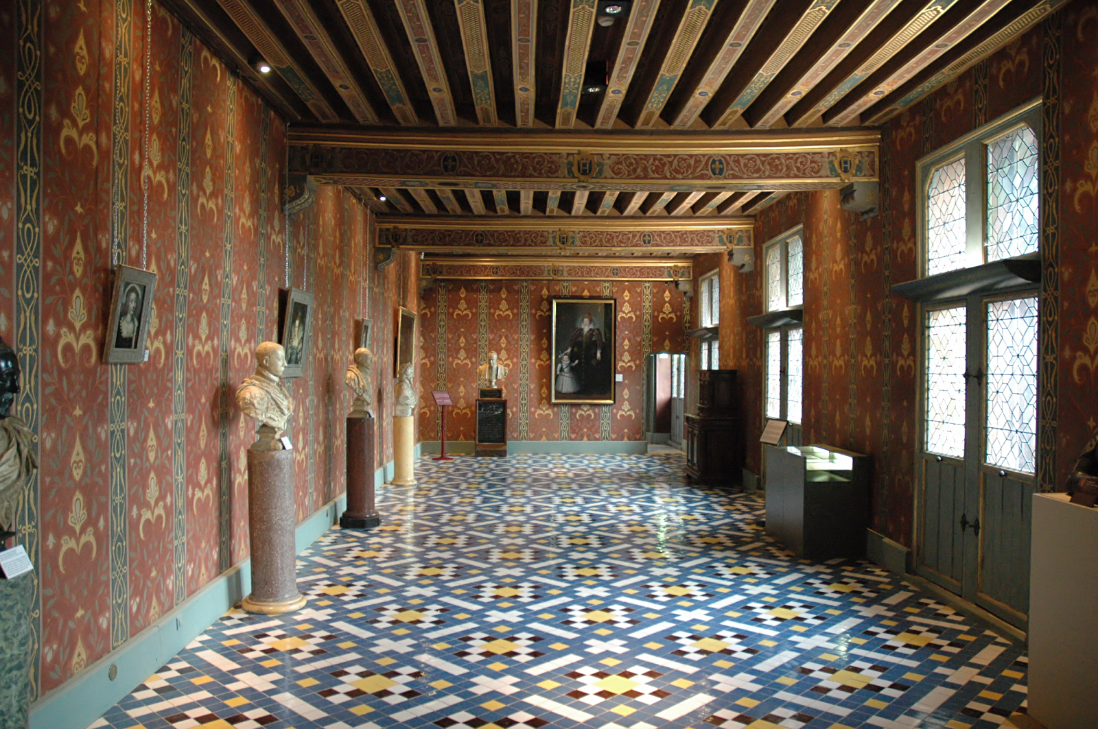 Château de Blois, the queen's gallery